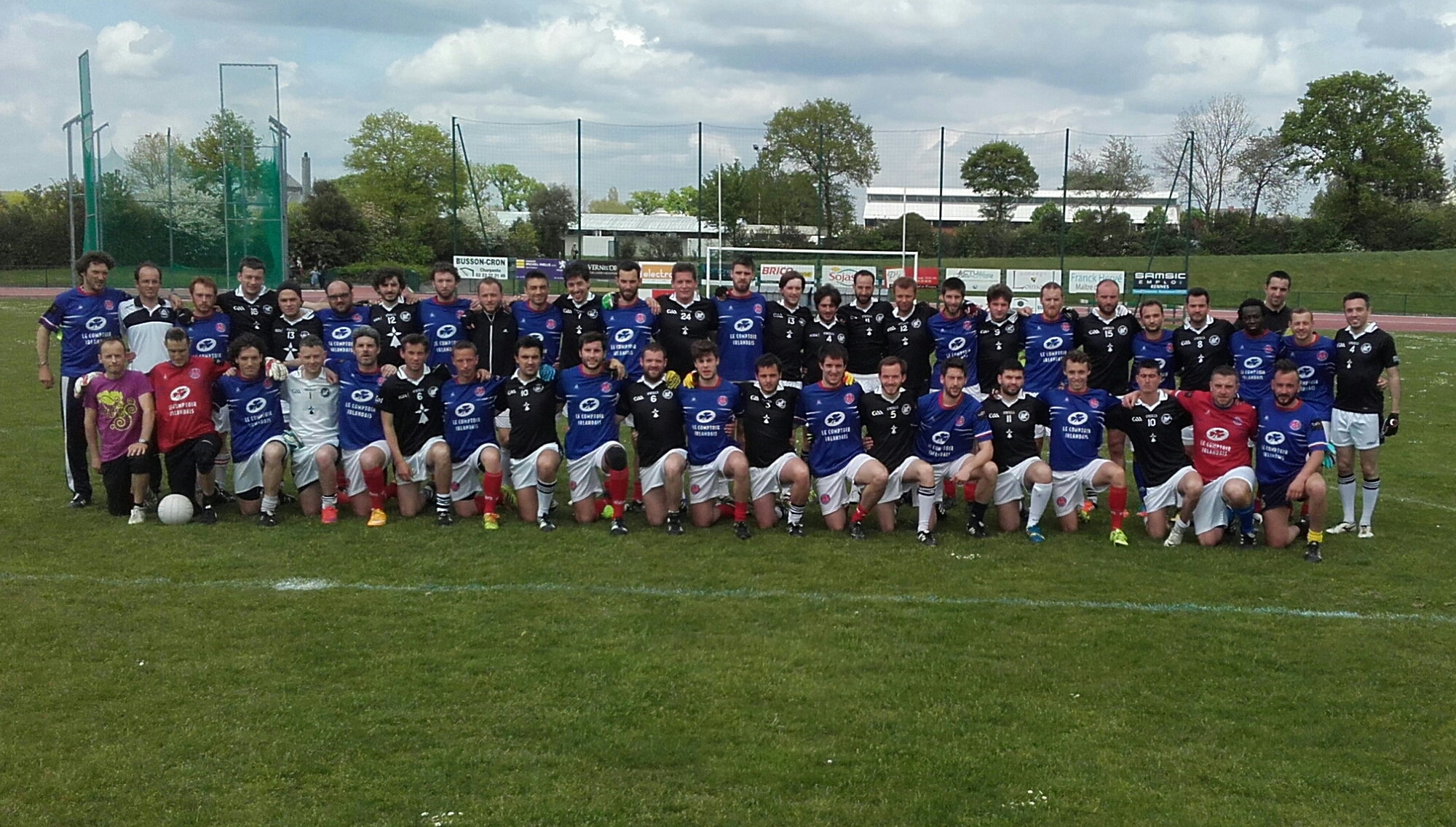 Gaelic football match France - Brittany 05/07/2016 in Liffré (Brittany)